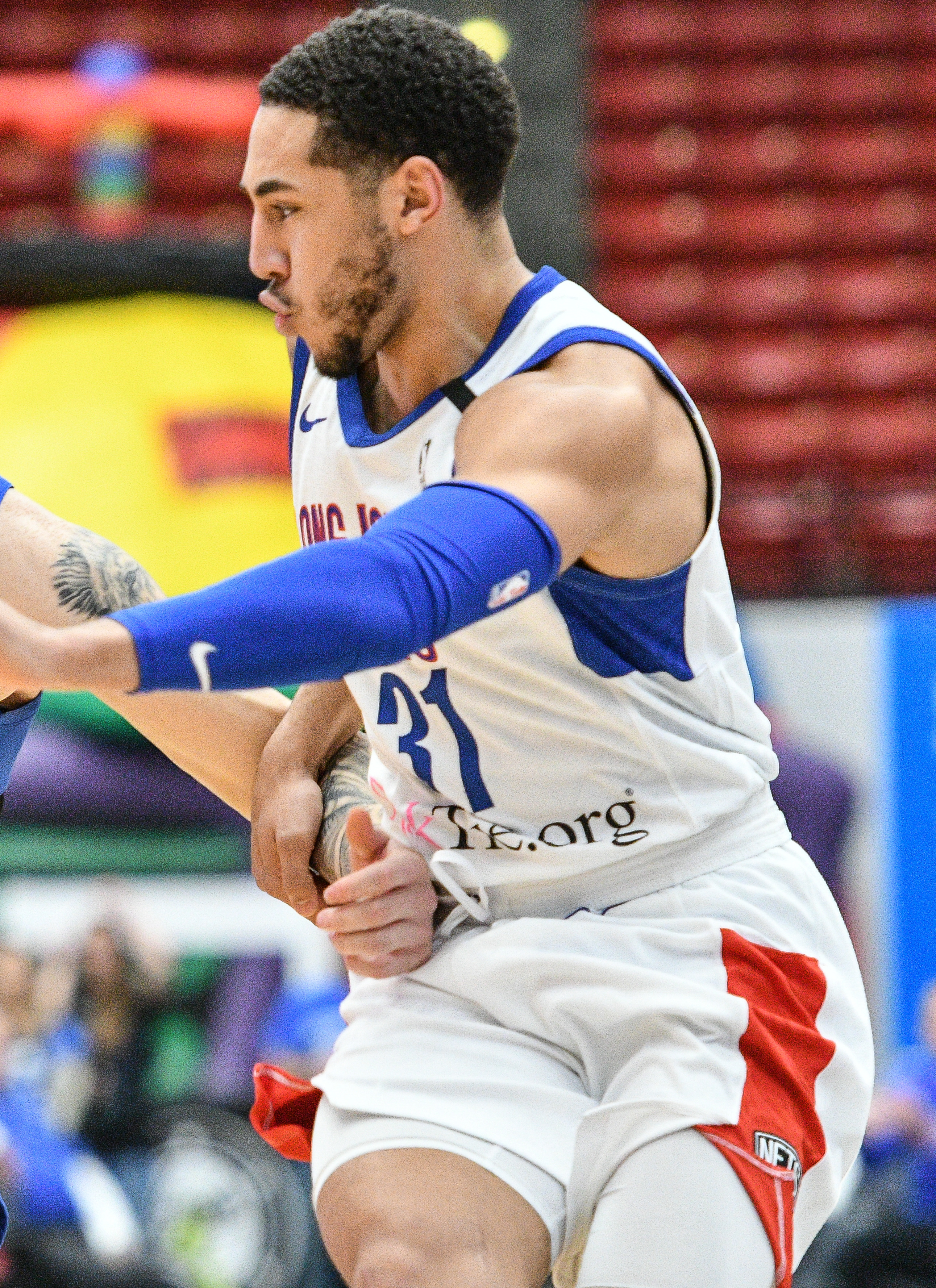 Hassani Gravett, Devin Cannady. Lakeland Magic vs Long Island Nets. RP Funding Center. Lakeland, Fla. Feb. 21, 2020. (Photo by Tom Hagerty.)